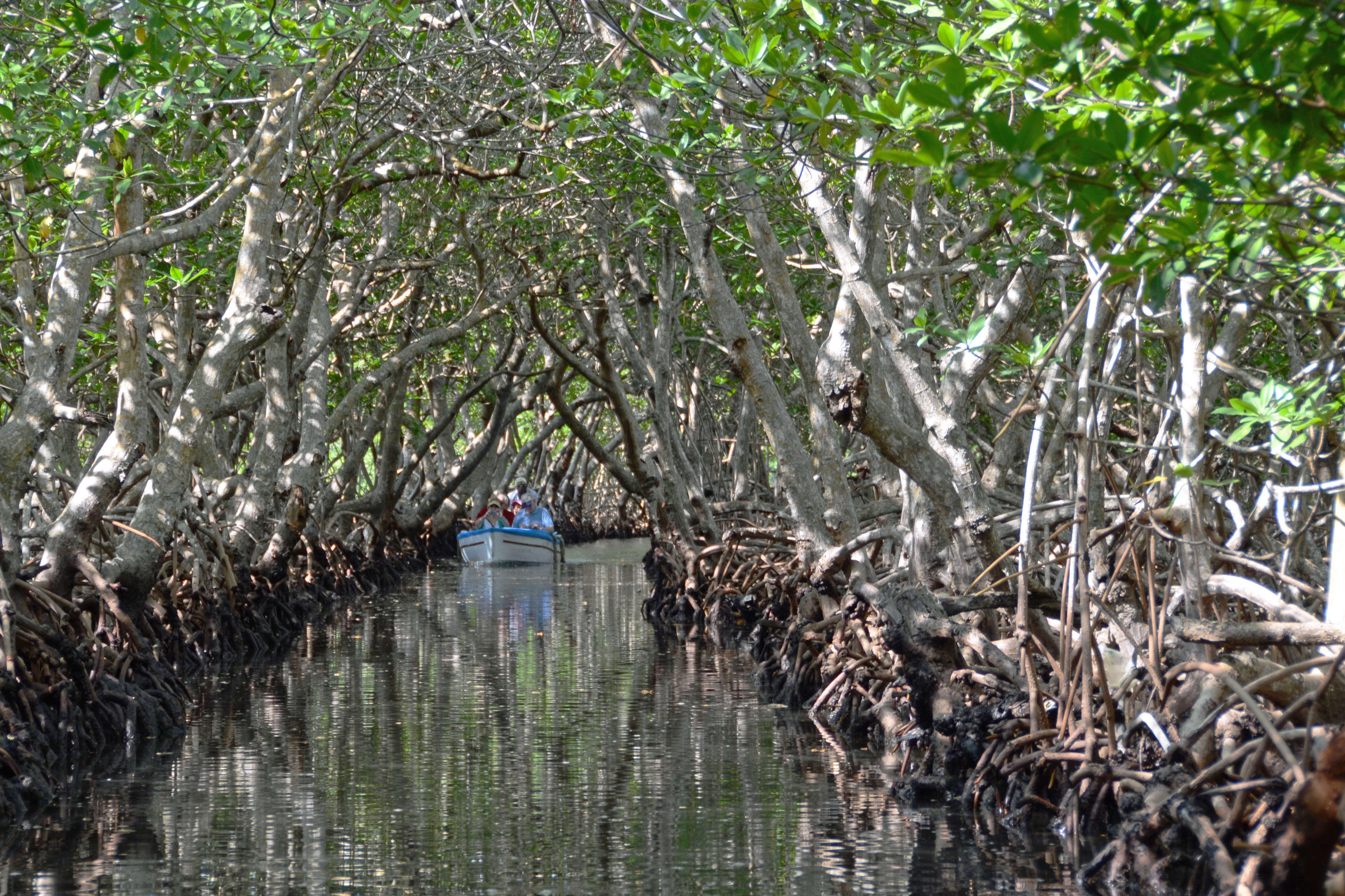 Mangrove tunnel in Roatán, Honduras.